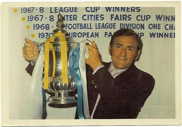 Les Cocker holds the FA Cup aloft at Leeds Greyhound Stadium in 1972, the year of the Centenary Cup Final. Leeds beat Arsenal 1-0, courtesy of an Alan Clark header.